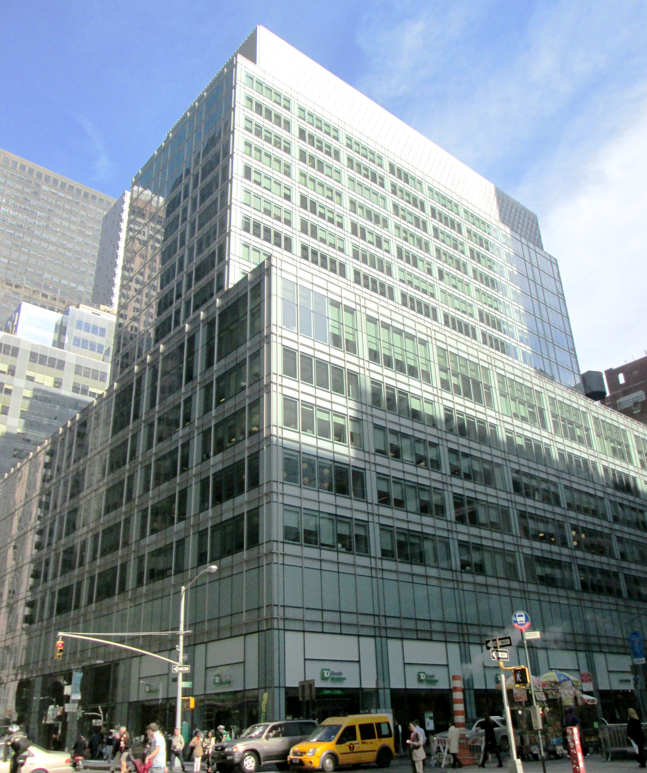 The Hippodrome Building at 1120 Avenue of the Americas (Sixth Avenue) between West 43rd and 44th Streets in the Midtown Manhattan neighborhood of Manhattan, New York City, was built in 1951–52 and was designed by Kahn & Jacobs. (Source: Emporis)